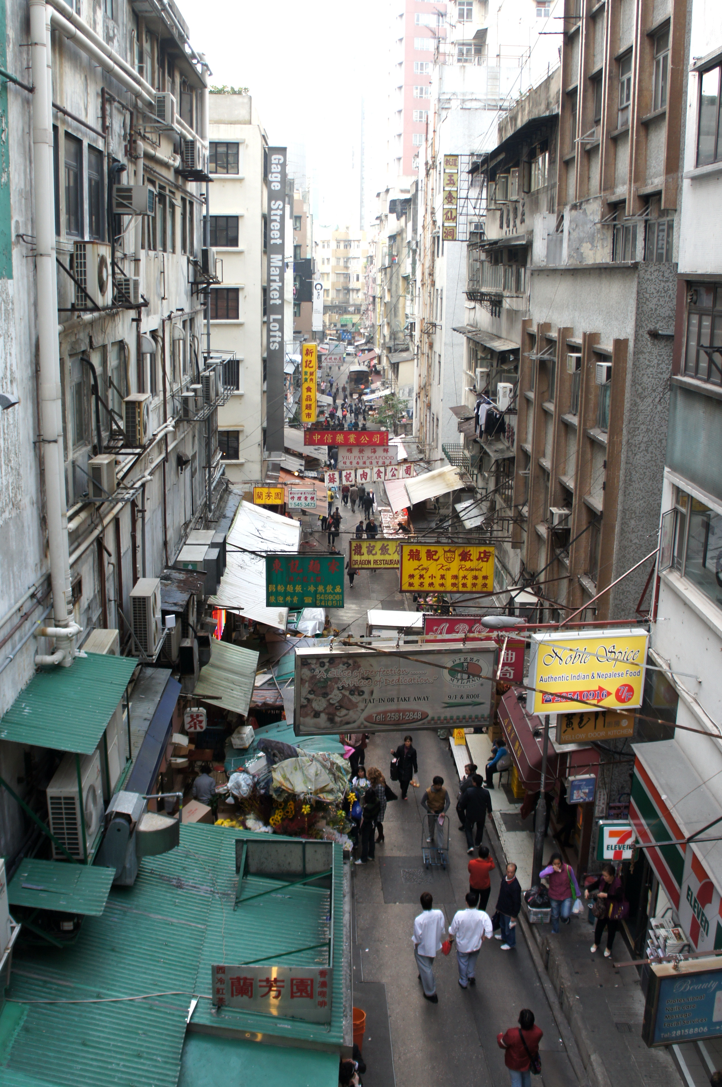 Gage Street, Central, Hong Kong.